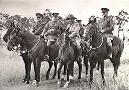 A group of Australian senior military personnel on horseback at Puckapunyal Camp, Victoria, in 1940. In the centre is Lieutenant Colonel Blair Anderson Wark VC, DSO, a recipient of the Victoria Cross during World War I